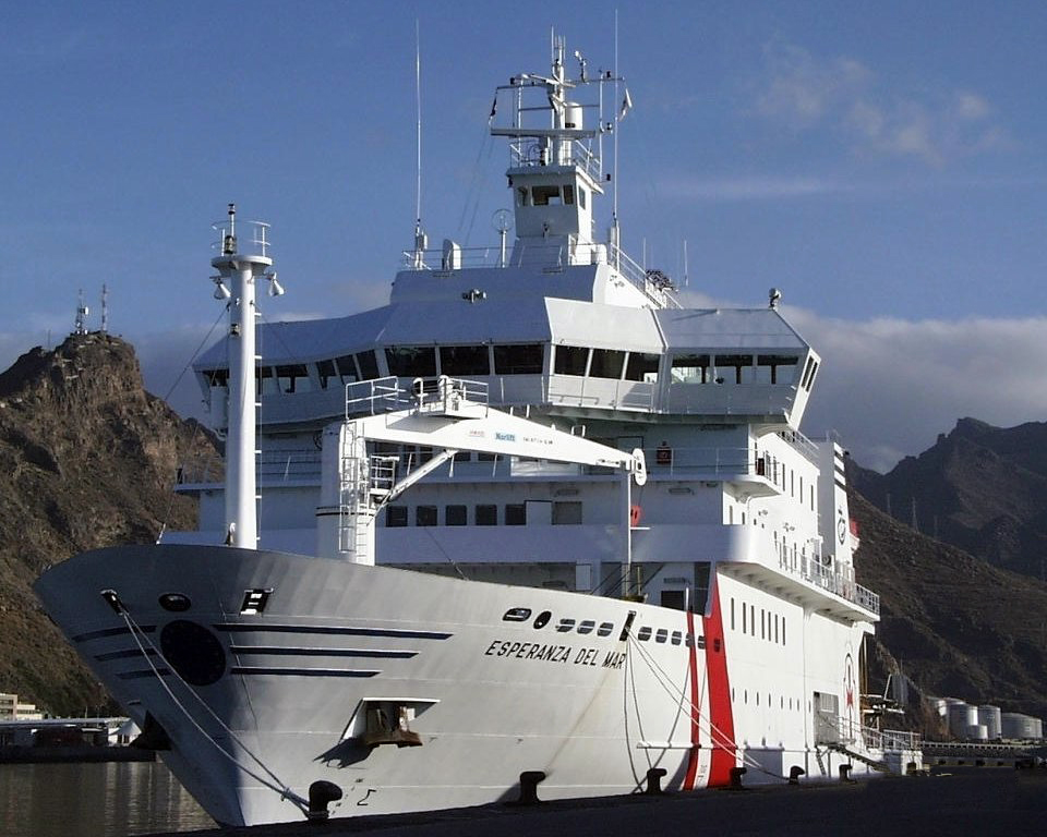 The Spanish hospital ship "Esperanza del Mar" in Santa Cruz de Tenerife IMO Number: 9220536 MMSI Number: 224731000 Callsign: EBUQ Length: 98 m Beam: 18 m